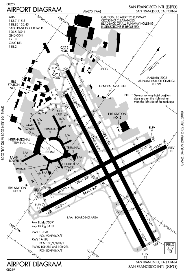 June 2009 Airport Diagram of SFO